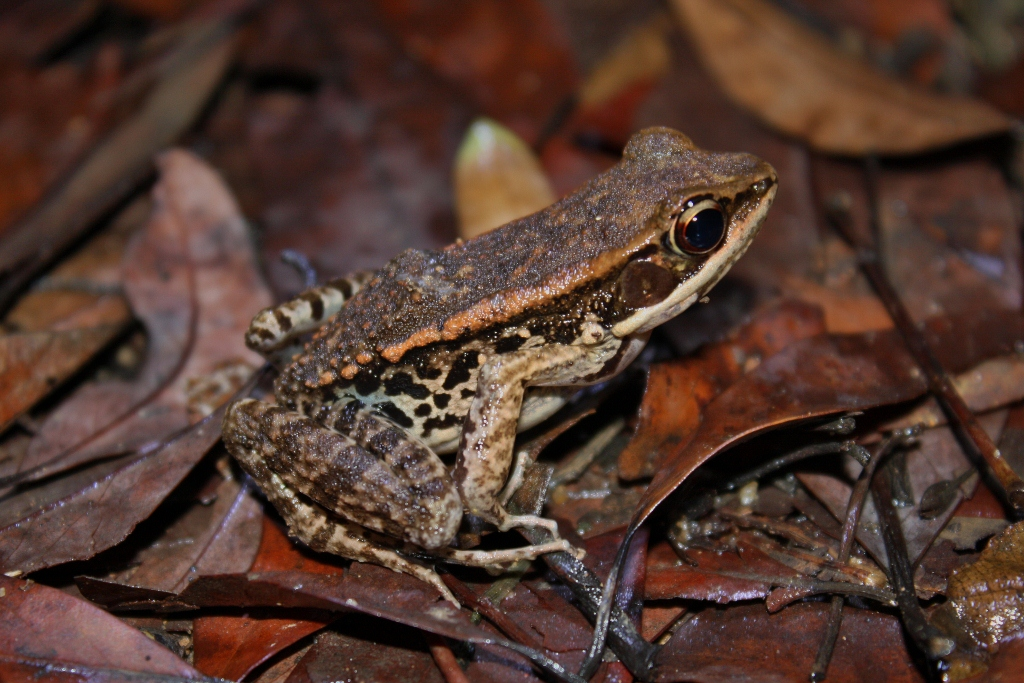 Brown Wood Frog (Hylarana latouchii). Taken in Tai Po Kau.